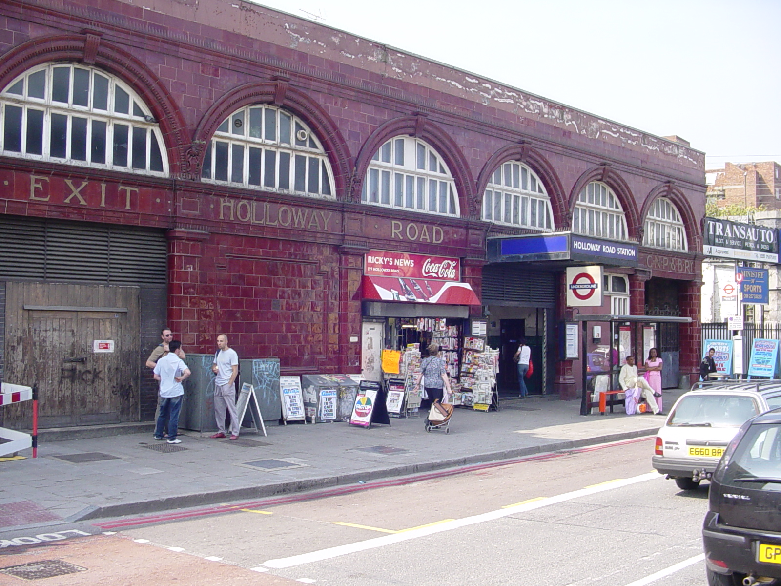 Holloway Tube Station